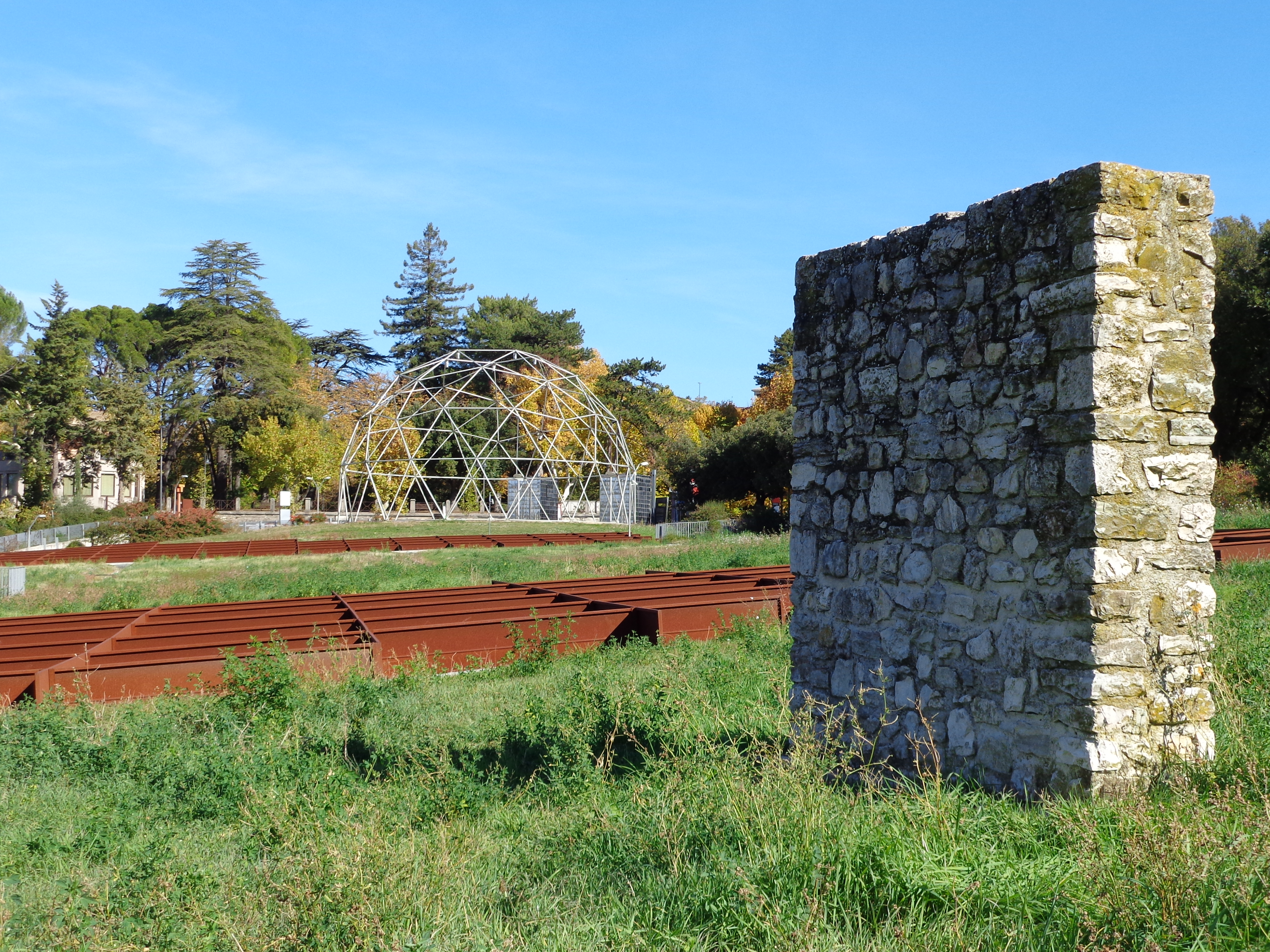 Sol LeWitt's wall in Spoleto